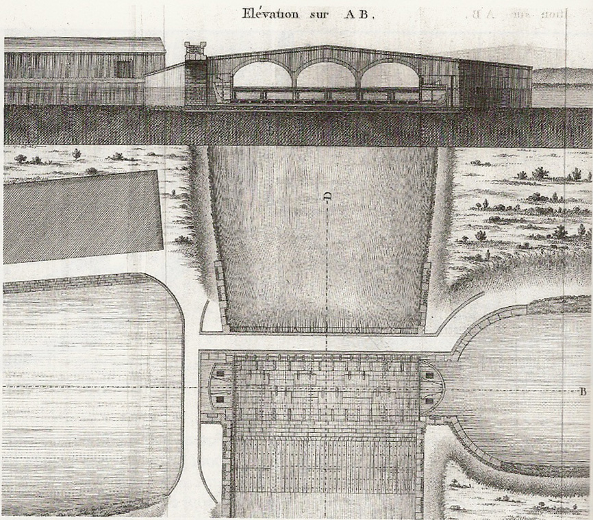 Elevation and plan of the "Pont du Libron" (Libron Raft) the pontoon viaduct which was replaced by Ouvrages de Libron in 1855